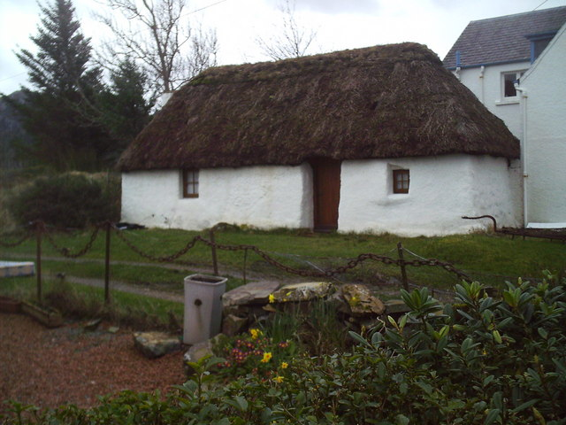 Black House, Plockton. This nicely renovated traditional Scottish house is an example of the Highland Black house, note the absence of a chimney, so they tended to be rather smoky inside.